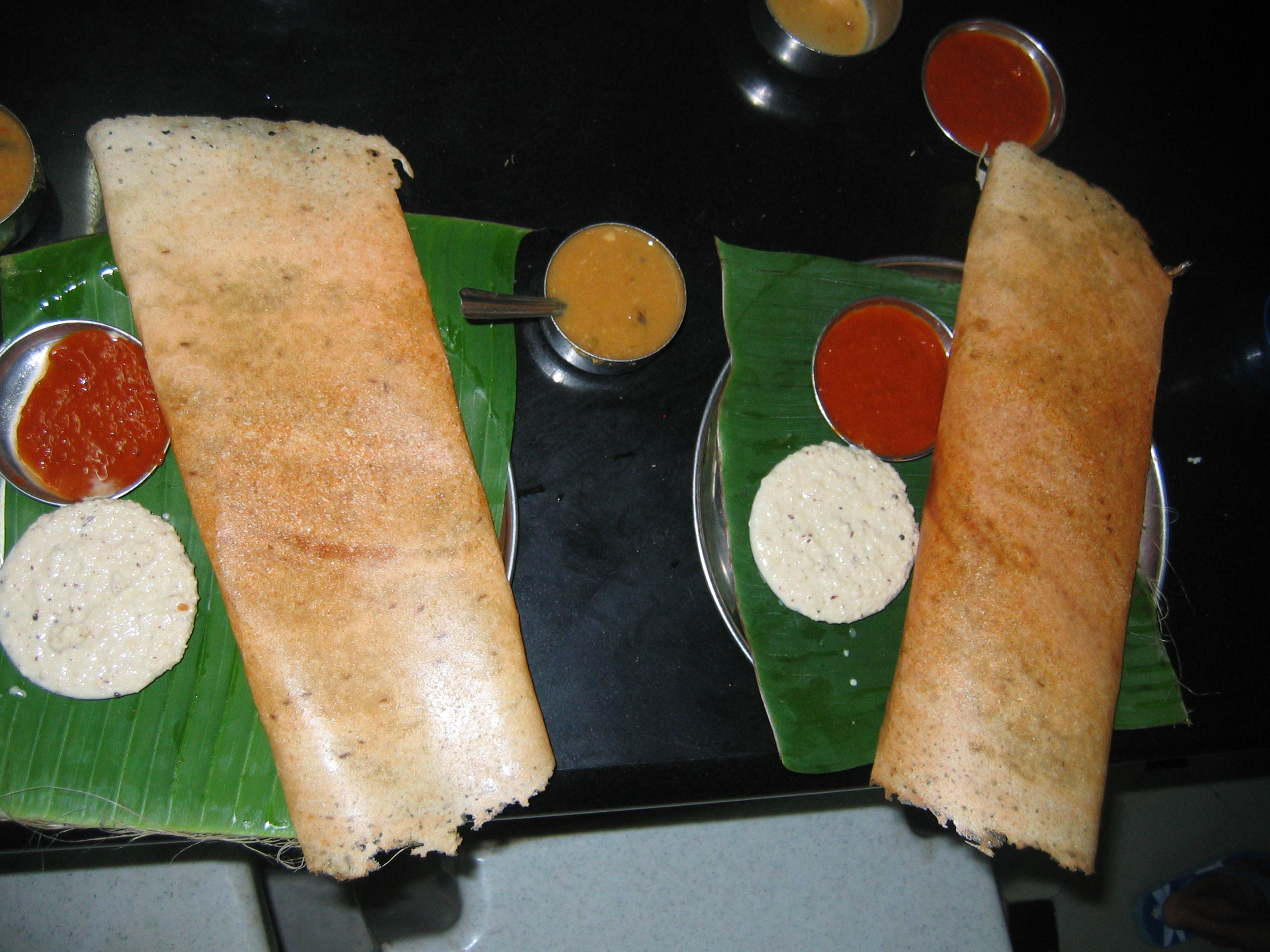 A typical break fast food item 'Dosa' prepared and served at a very popular restaurant in Guntur City, India.